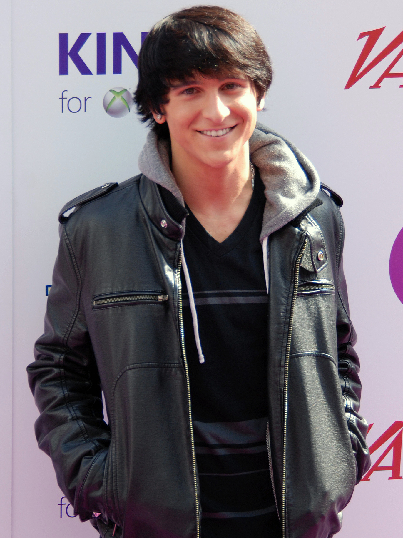 Mitchel Musso attends the Variety's Power of Youth Event at Paramount Studios in Hollywood, CA, Oct 24, 2010